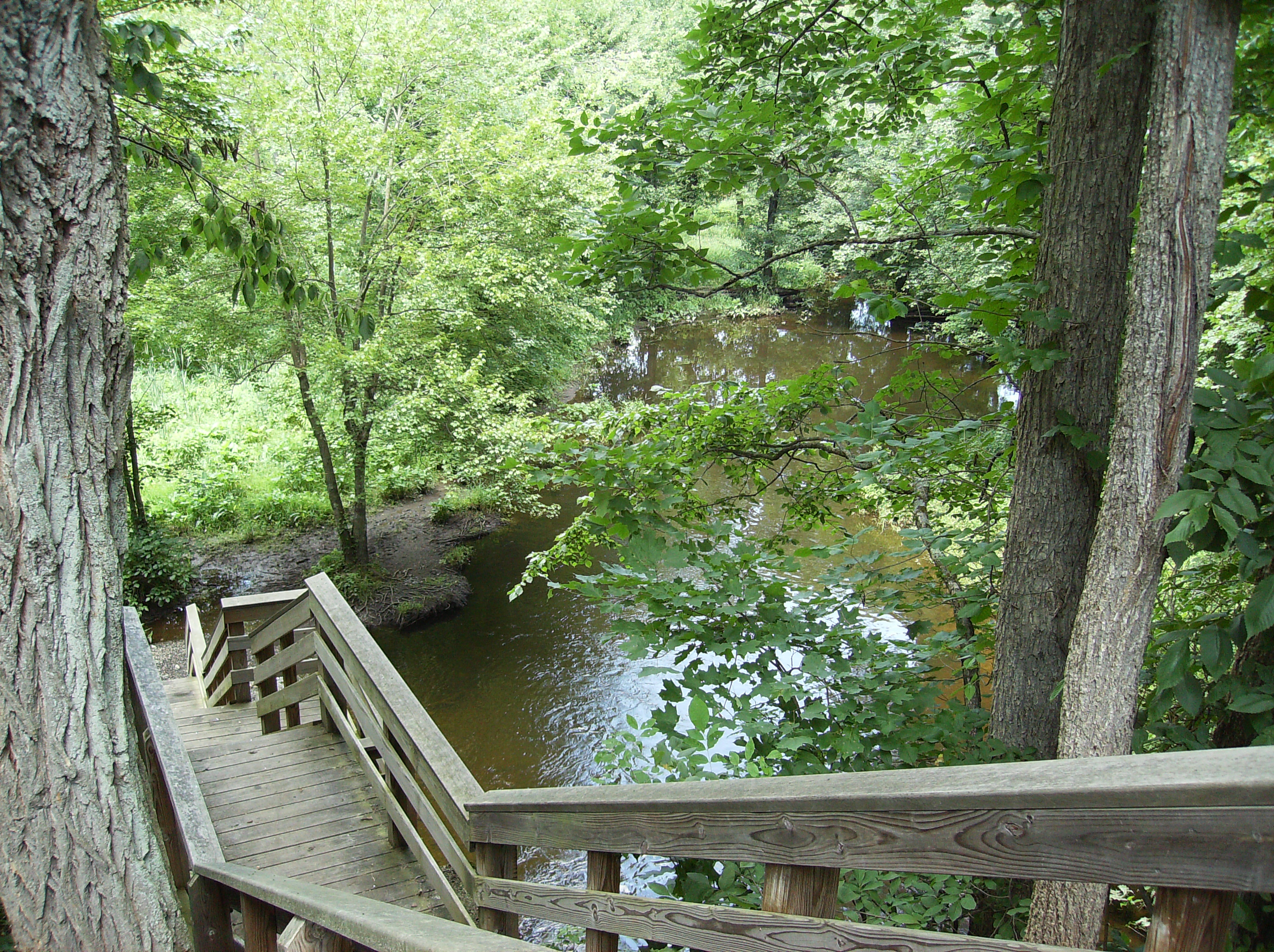 Black Creek Wetlands Complex in Highland, New York. This photo was taken at the top of a tall staircase connecting the wetlands with the Hudson Valley Rail Trail.